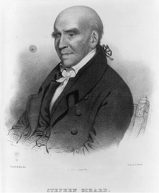 picture of Stephen Girard